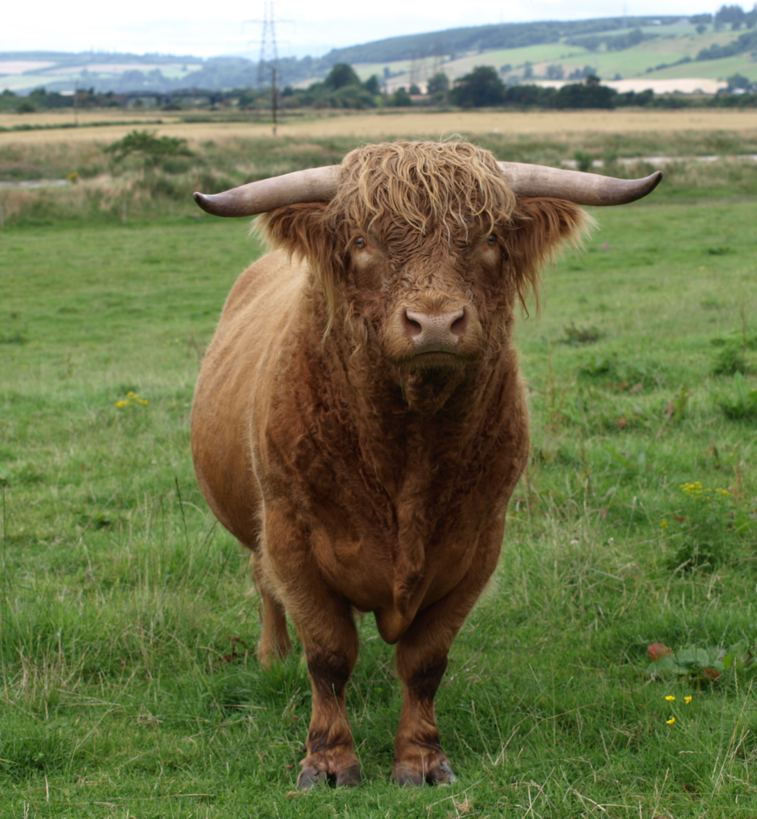 Highland Cattle bull – Domdmull Chief Bull at Gateside Home Farm, Bridge of Earn, Scotland